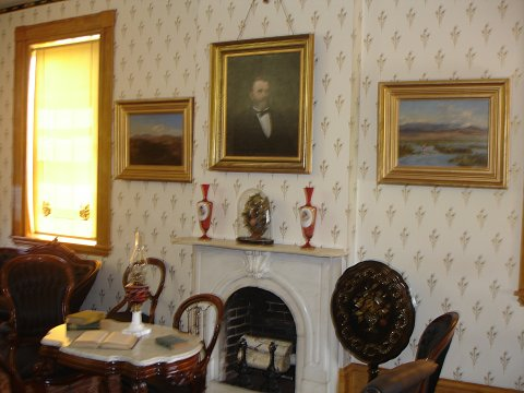 Main parlor at the U.S. Grant Home in Galena, Illinois.